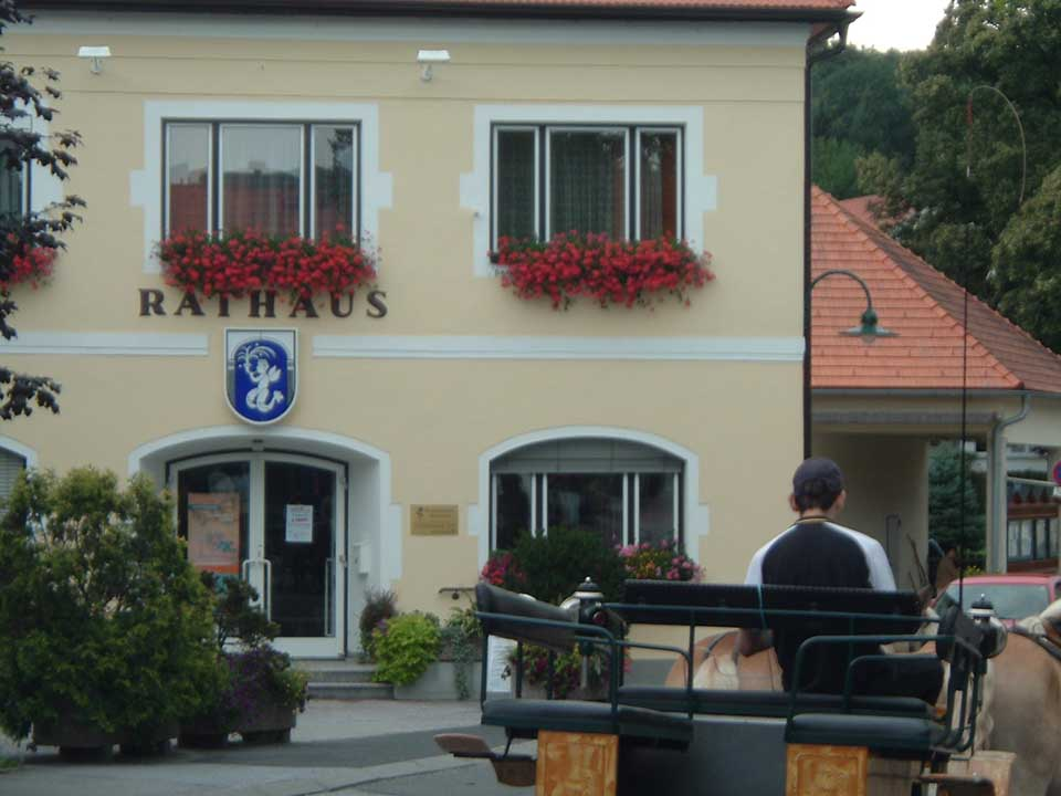 The City Hall in Bad Tatzmannsdorf, Burgenland, Austria